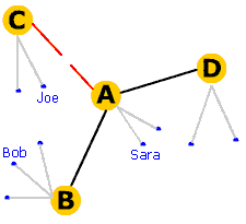 Created by myself.